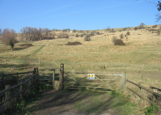 View across The Roughs Note the disk in the hillside. This was used to listen out for approaching aircraft during the war.